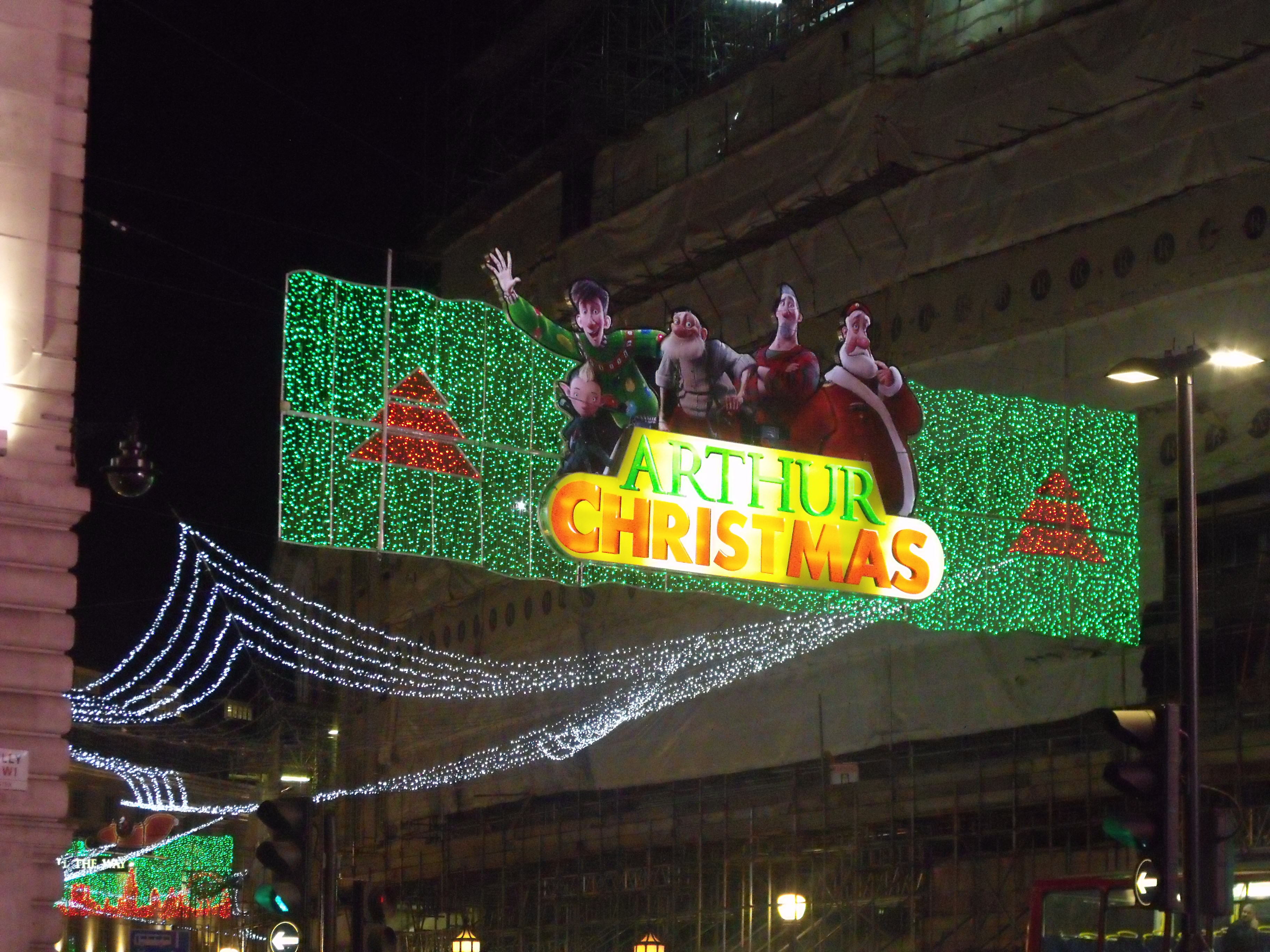 At Piccadilly Circus in London. Night shots of buildings and the fountain. Regent Street is down here. Christmas lights advertising Arthur Christmas.